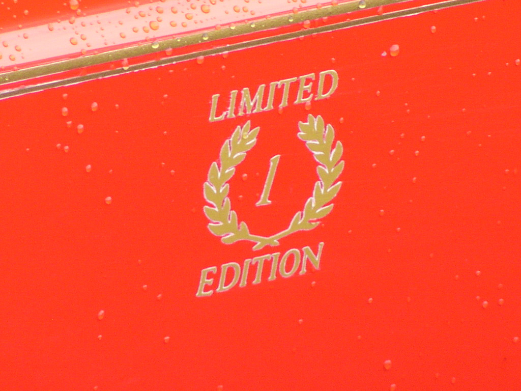 Photographer: Roger Thomas